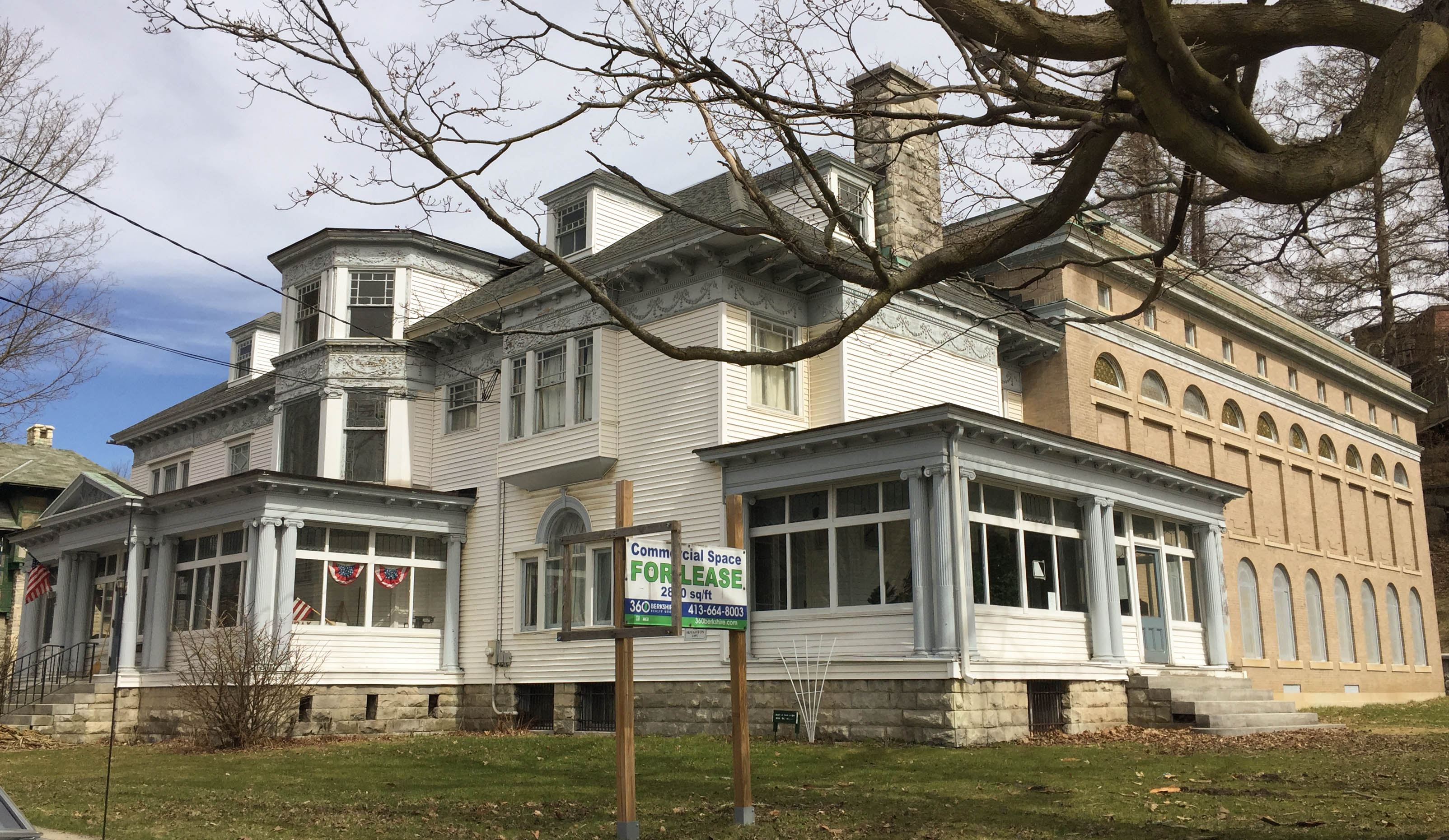 Houghton Mansion, 172 Church St, North Adams, Massachusetts 01247